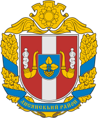 Coat of arms of Lysiansky Raion Cherkasy Oblast Ukraine.